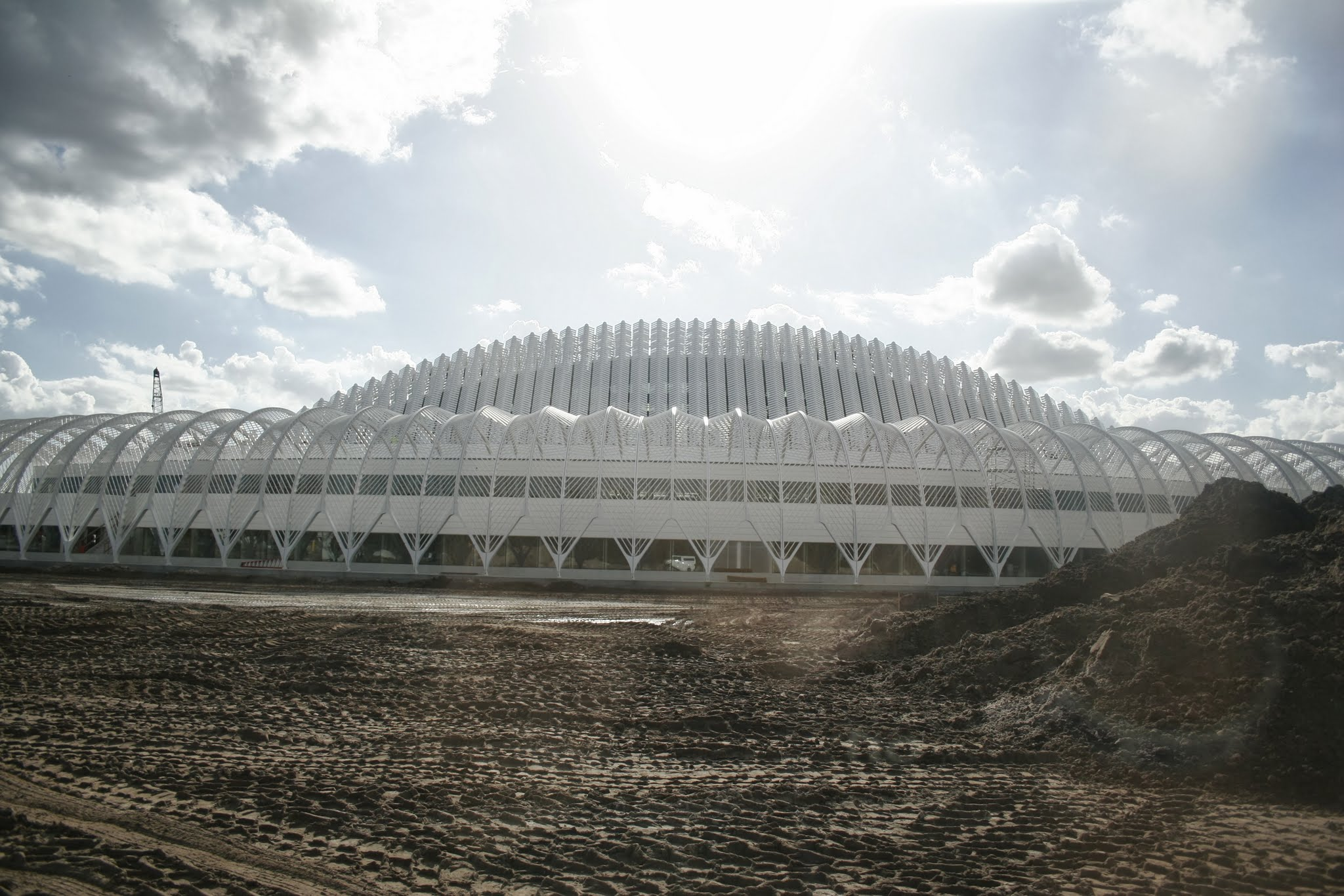 The east side of the ISTC Building at Florida Polytechnic University on February 4th 2014